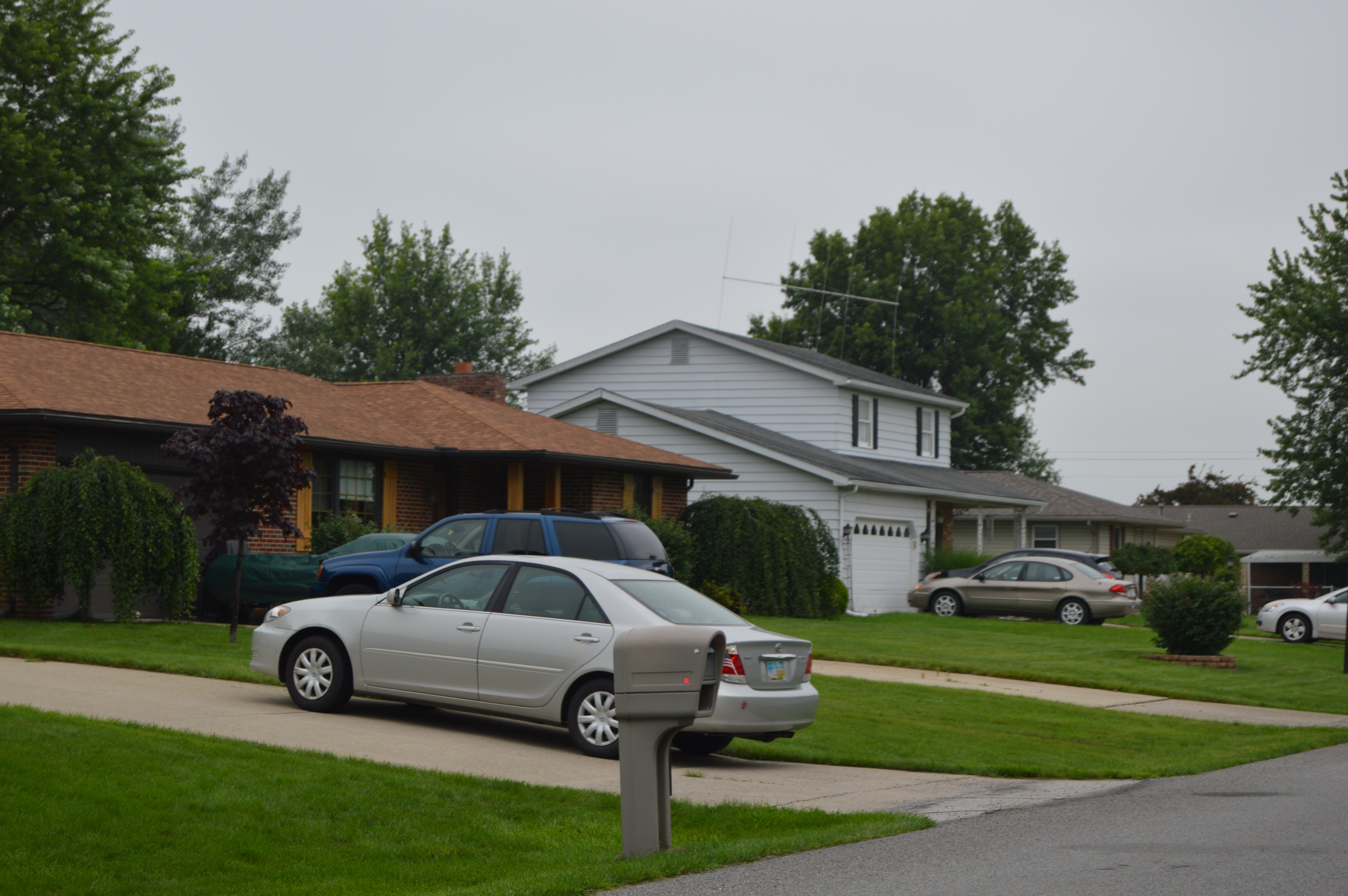 Houses on the western side of Shiloh Drive just south of the Bluelick Road intersection north of Lima in Bath Township, Allen County, Ohio, United States.